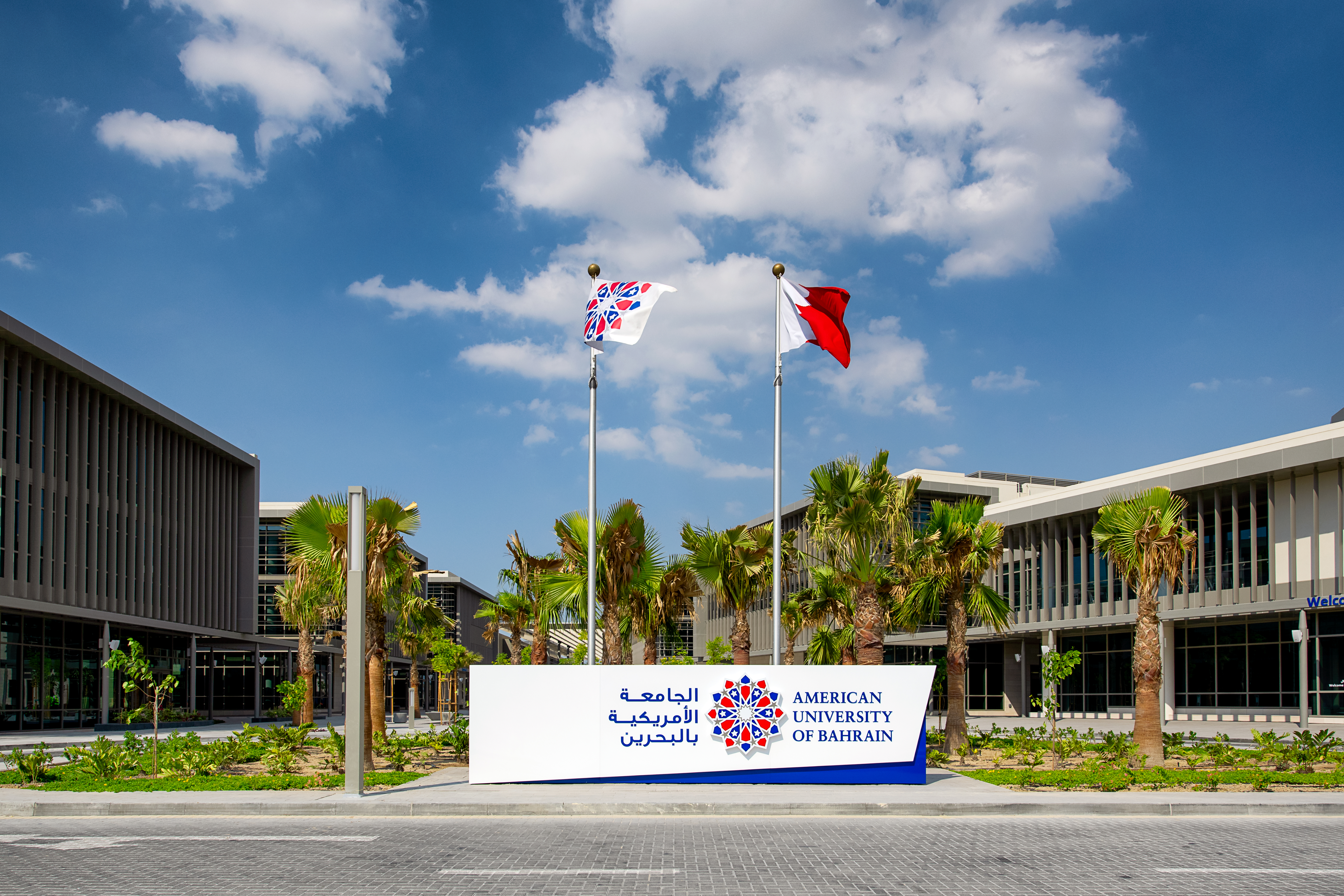 Picture of the AUBH flags.